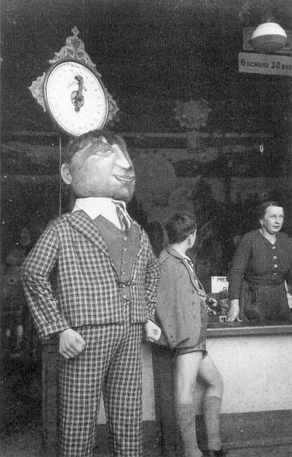 Watschenmann, Prater Vienna